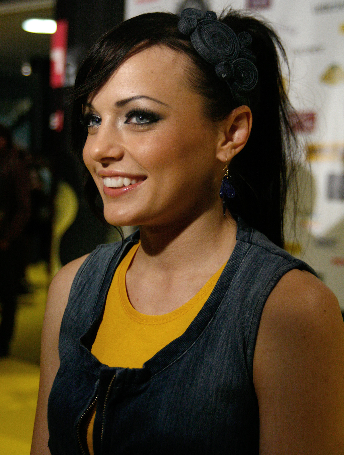 Charlee at the Amadeus Austrian Music Award 2010 (Wiener Stadthalle, Vienna, Austria)